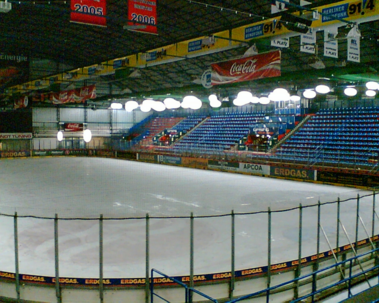 Wellblechpalast Berlin, indoors, grandstand, field